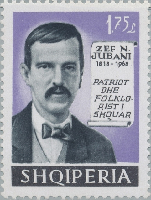 Postage Stamps/ Zef Jubani